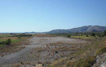 Runway of the old Italian Gadurrà Airport (also known in english as Kalathos Airfield) on the island of Rhodes, Grecce.Unknown pista del vecchio aeroporto di gadurrà sull'isola di rodi, grecia, vista dalla testata 15.